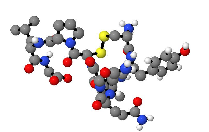 Antidiuretic hormone